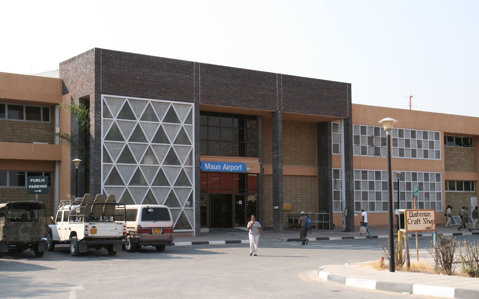 The Maun Airport building in August 2007